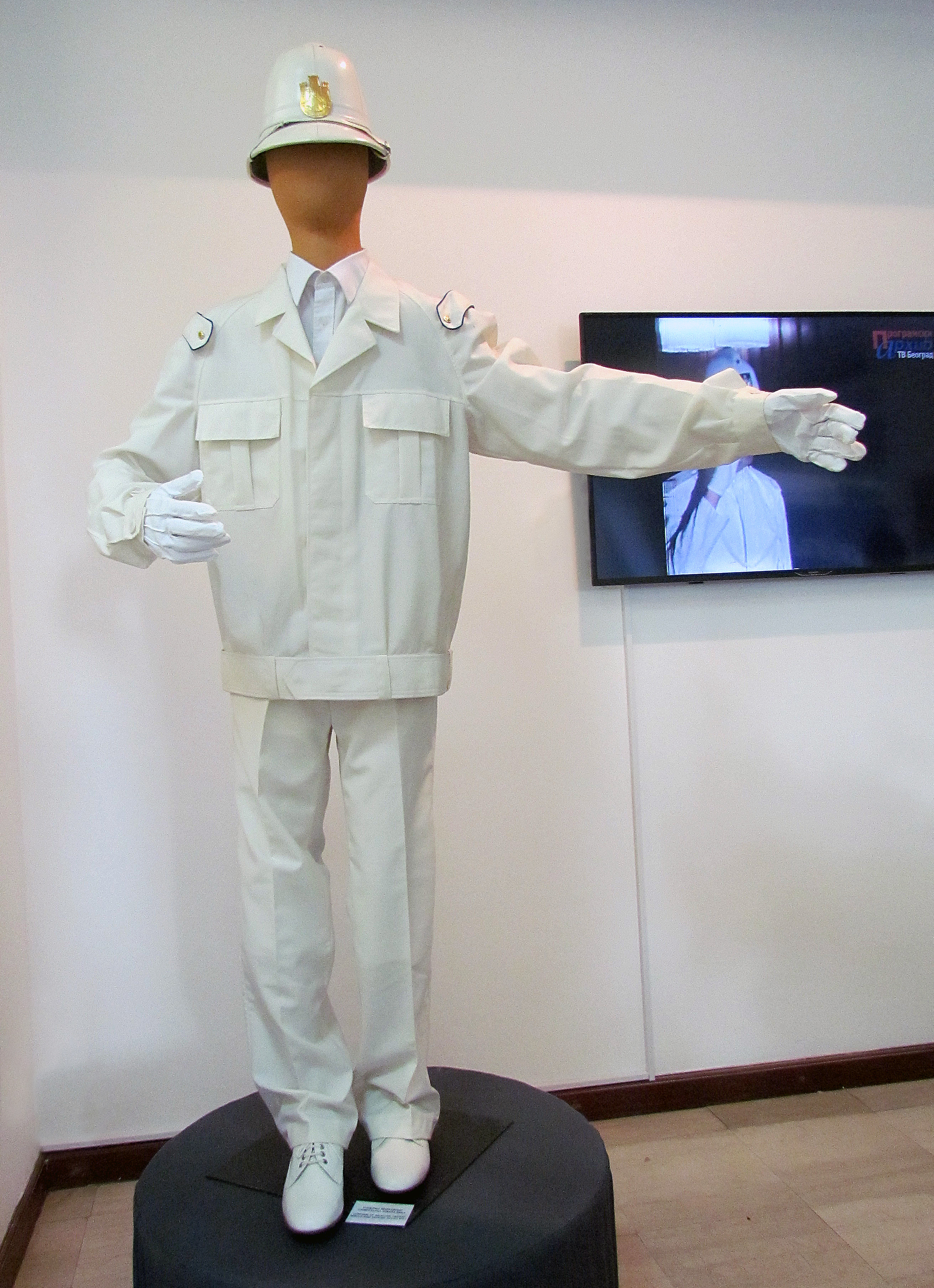 Uniform of Yugoslav policemen